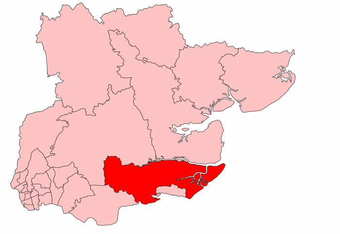 A map of South East Essex constituency within Essex, as it existed from 1945 to 1950.